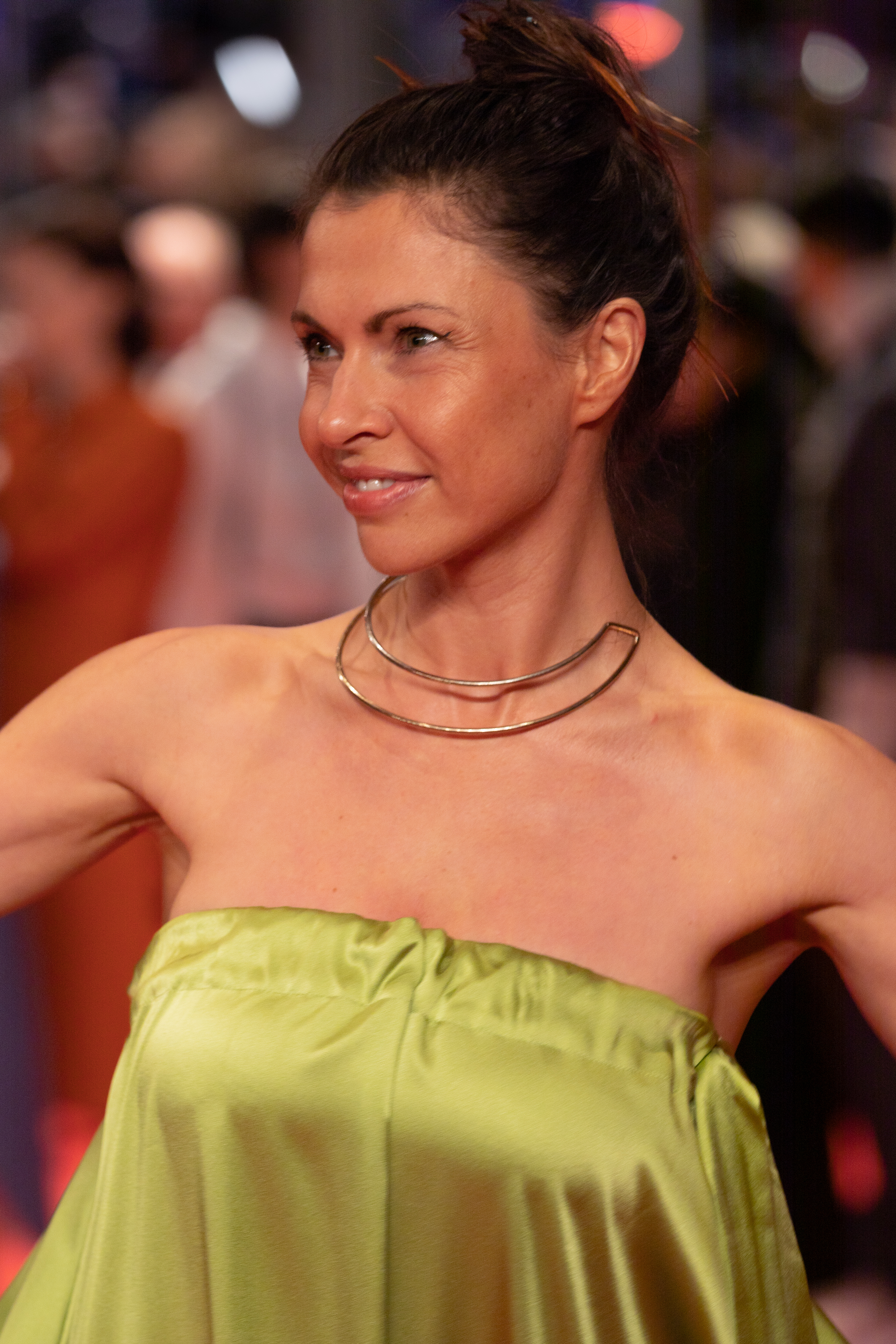 Jana Pallaske at Berlinale 2020